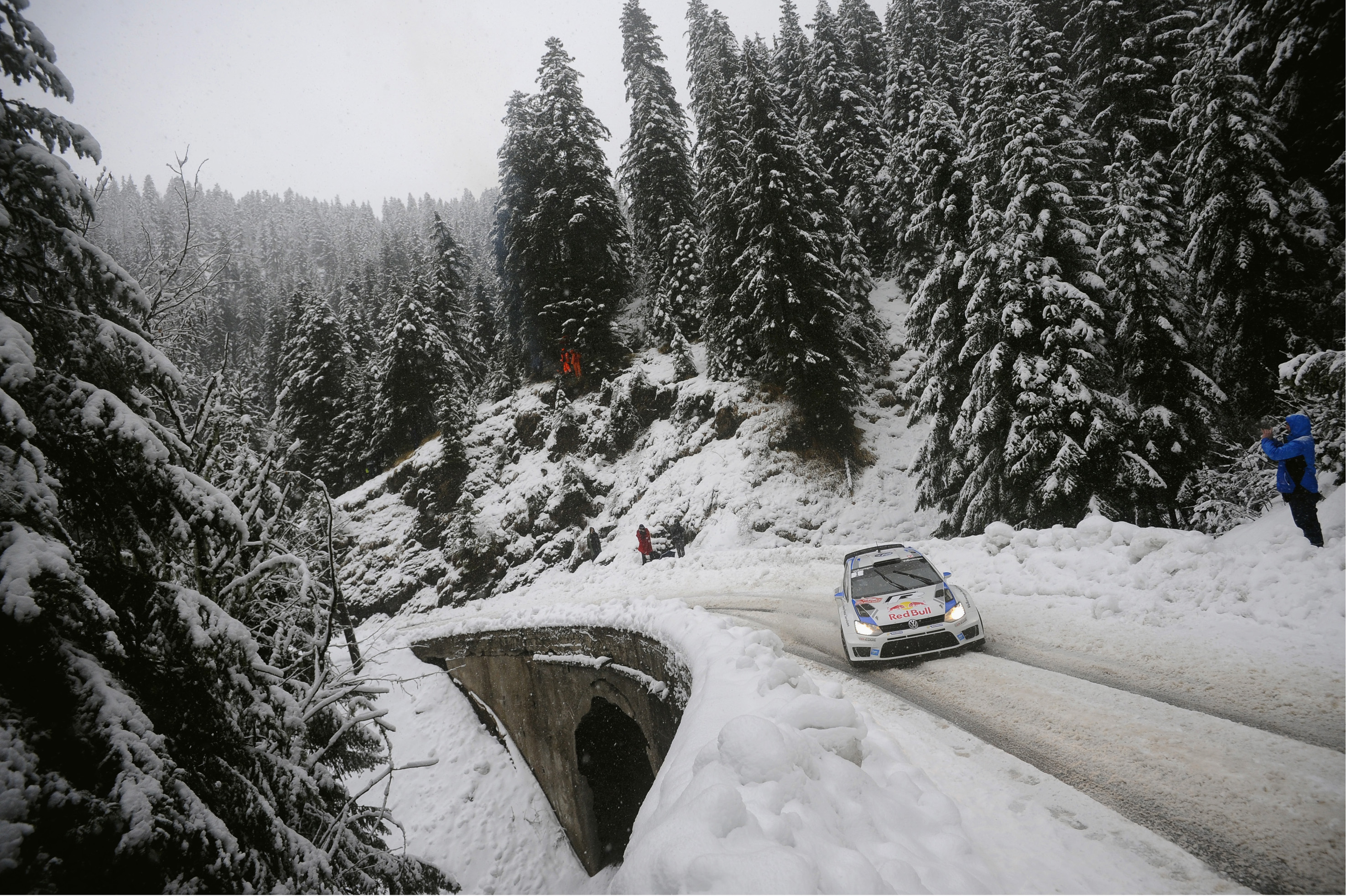 Sébastien Ogier and co-driver Julien Ingrassia in their VW Polo R WRC at the 2014 Rallye Automobile Monte Carlo.